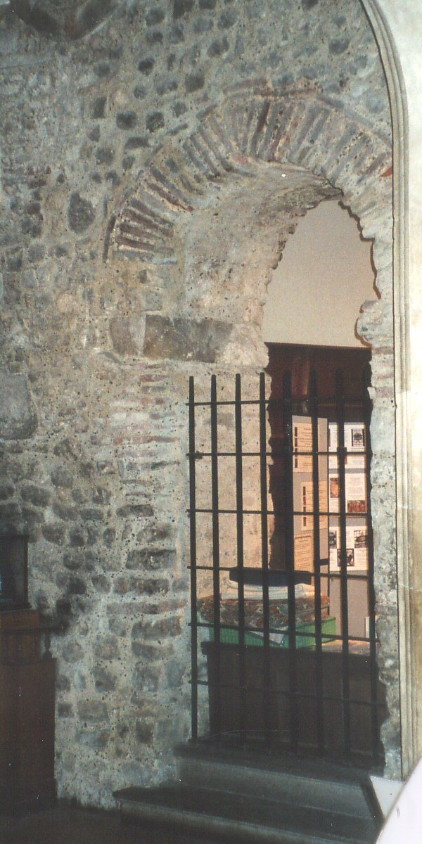 The Saxon arch in All Hallows-by-the-Tower